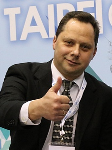 Andrea Montesinos Cantú and Vladimir Petrenko at the 2017 Junior World Championships